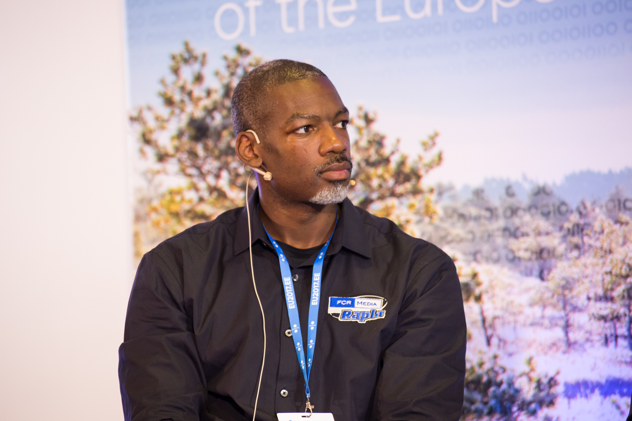 Howard Fletcher Frier, coach and retired American basketball player. Conference 'Role of sport coaches in society. Adding value to people's lives', Tallinn